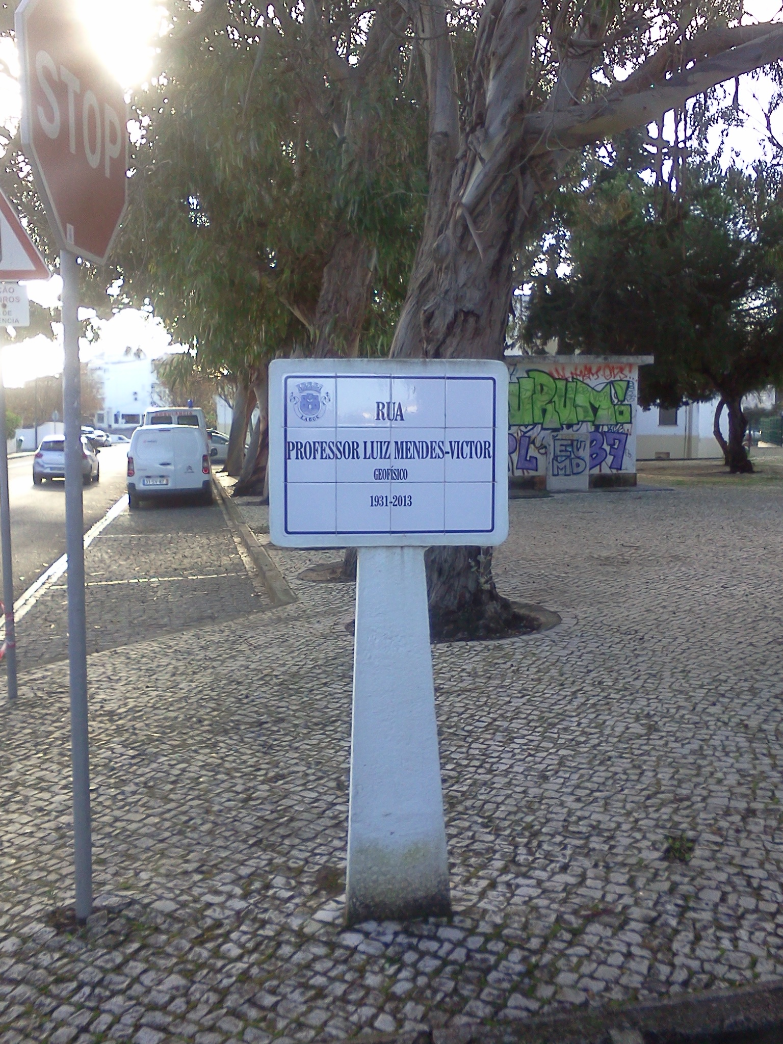 Street sign of Rua Professor Luiz Mendes-Victor, in the city of Lagos, in southern Portugal.